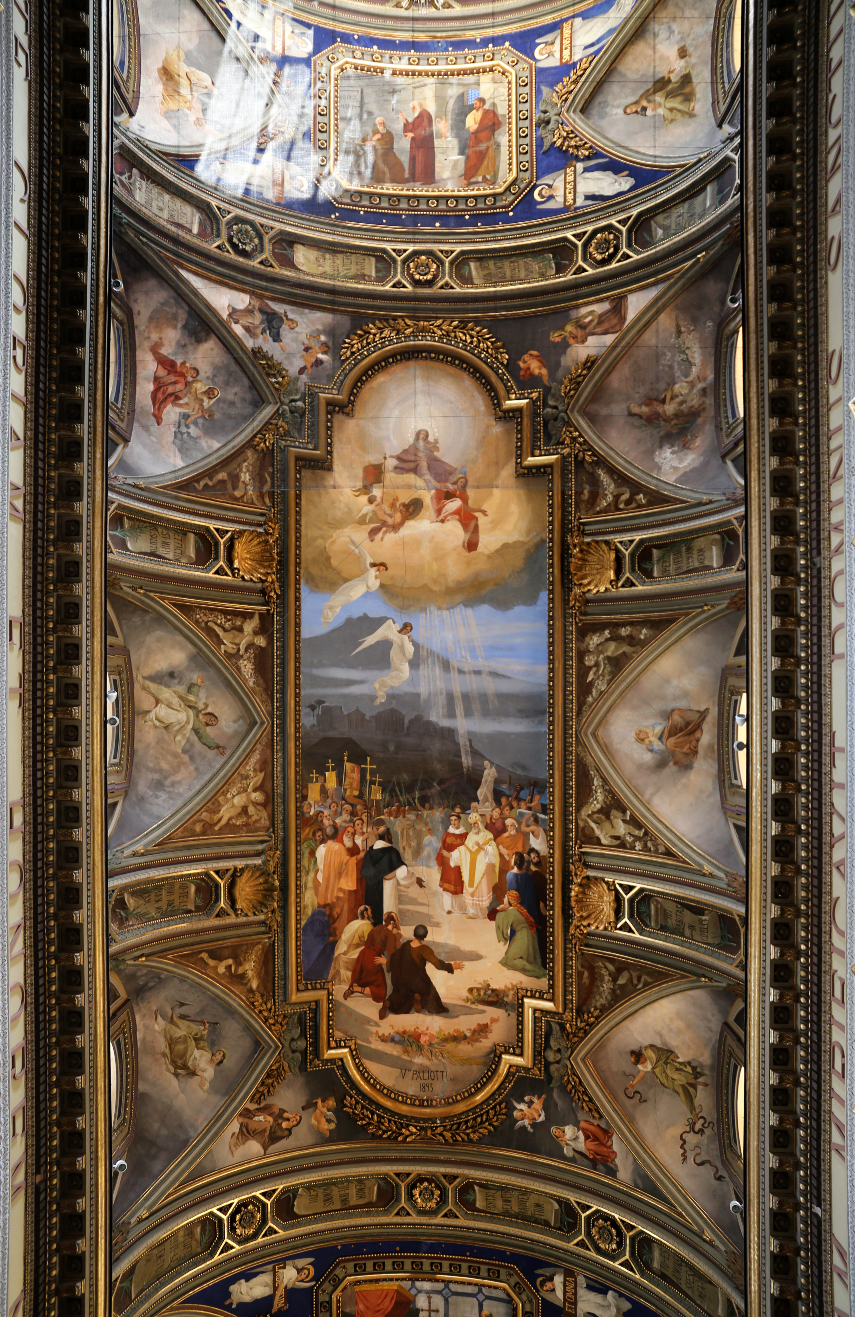 Santissima Maria Assunta e San Catello (Castellammare di Stabia) - Interior